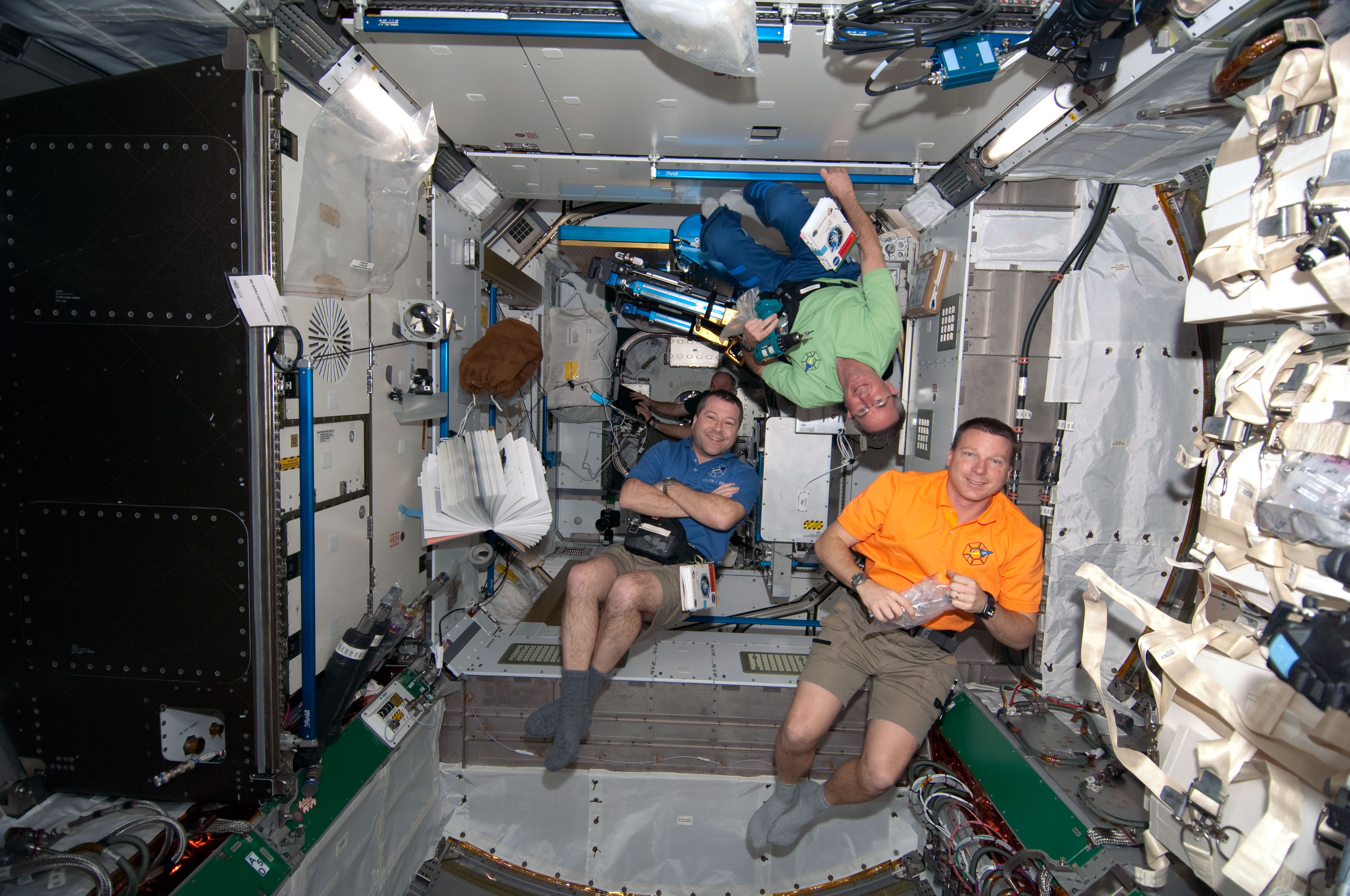 NASA astronauts Terry Virts (right), STS-130 pilot; Nicholas Patrick (left) and Stephen Robinson, both mission specialists, are pictured in the newly-installed Tranquility node of the International Space Station while space shuttle Endeavour remains docked with the station.